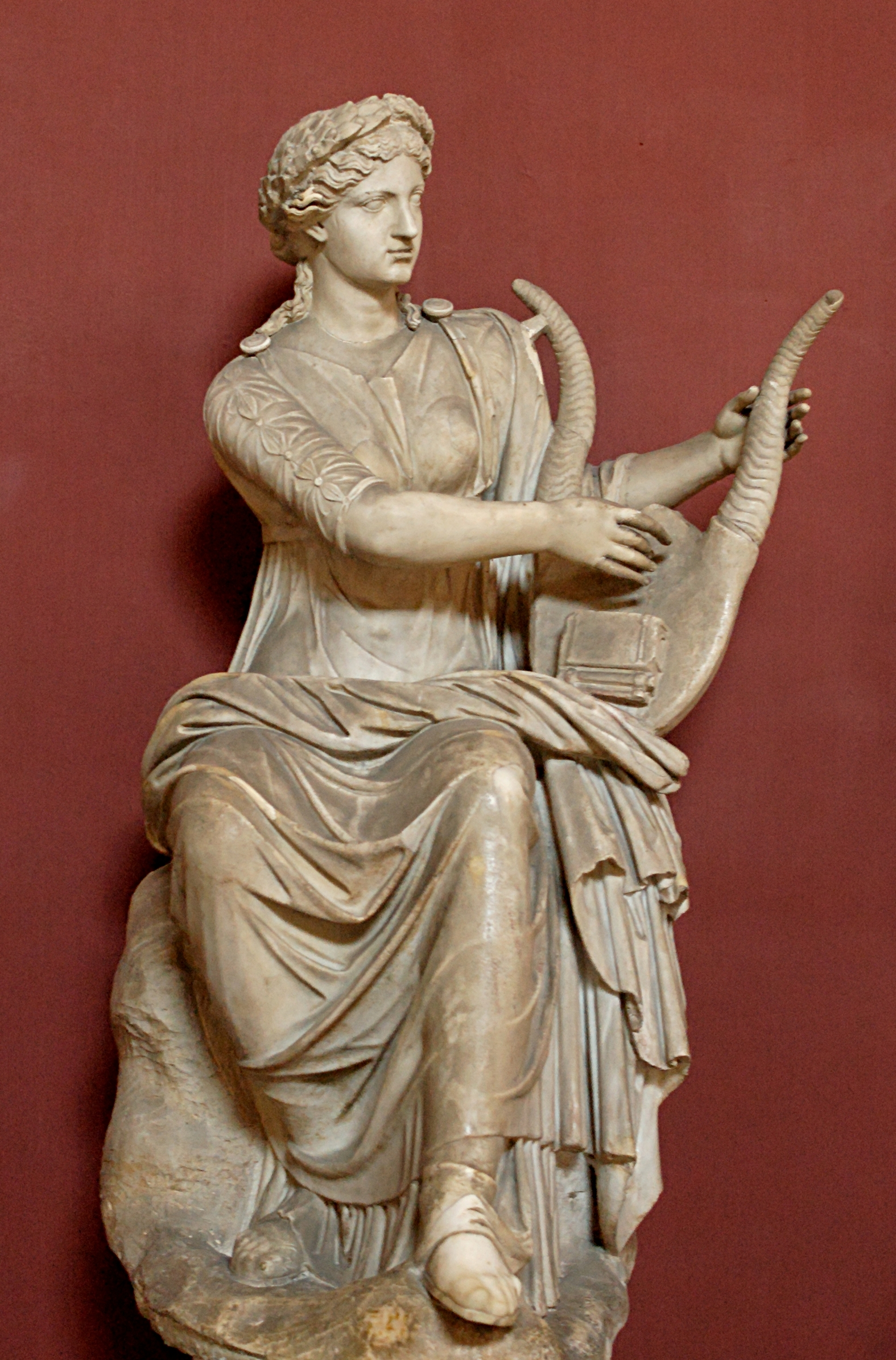 Terpsichore, Muse of the dance. Marble, Roman artwork from the 2nd century CE. The head is ancient but does not belong to the body. From the Villa of Cassius near Tivoli, 1774.